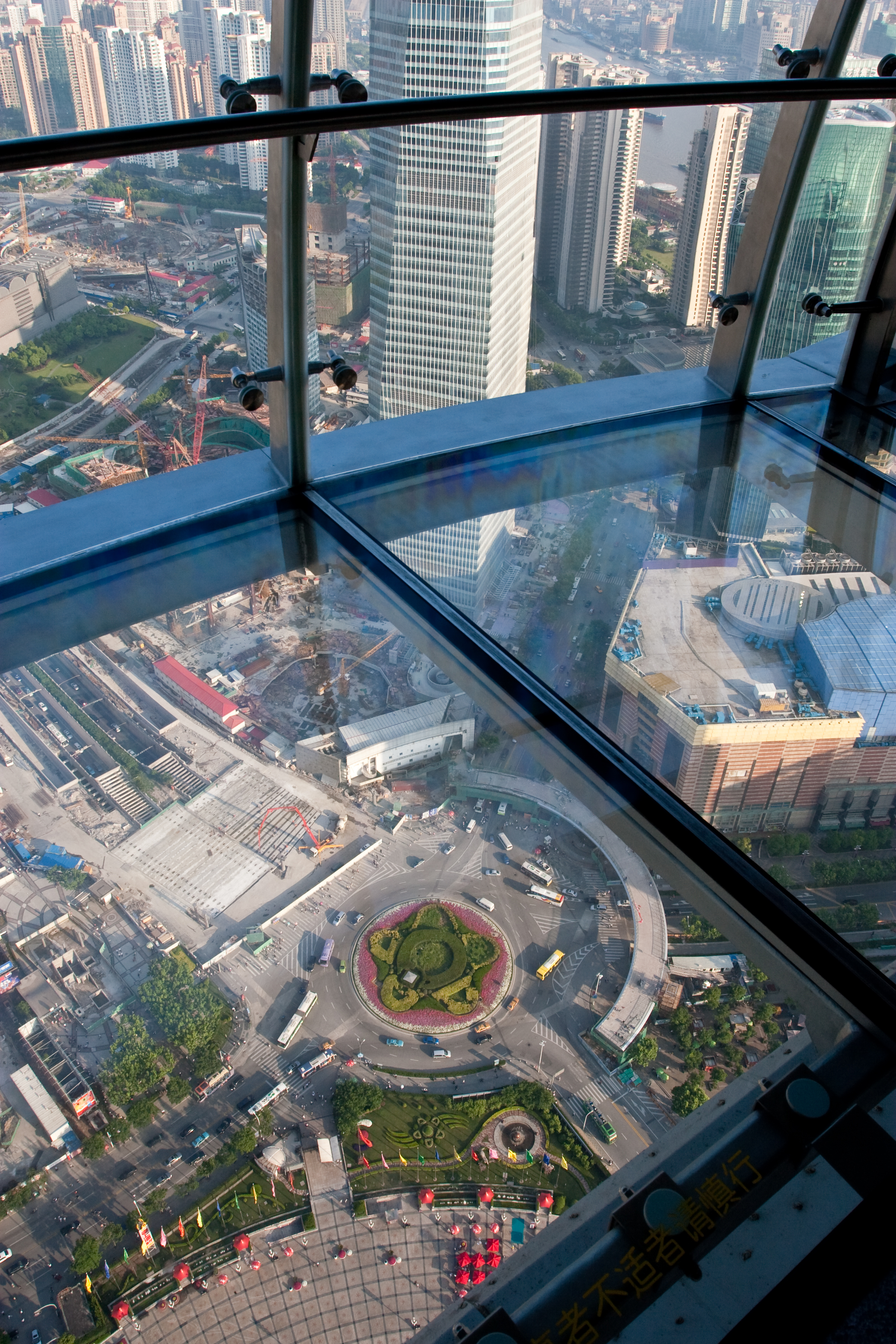 Shanghai's Oriental Pearl Tower's new observation deck built in May 2009, just below the original observation deck. Uniquely, this deck features a glass floor and is outdoors, with slats between the glass wall panels to allow a breeze through.